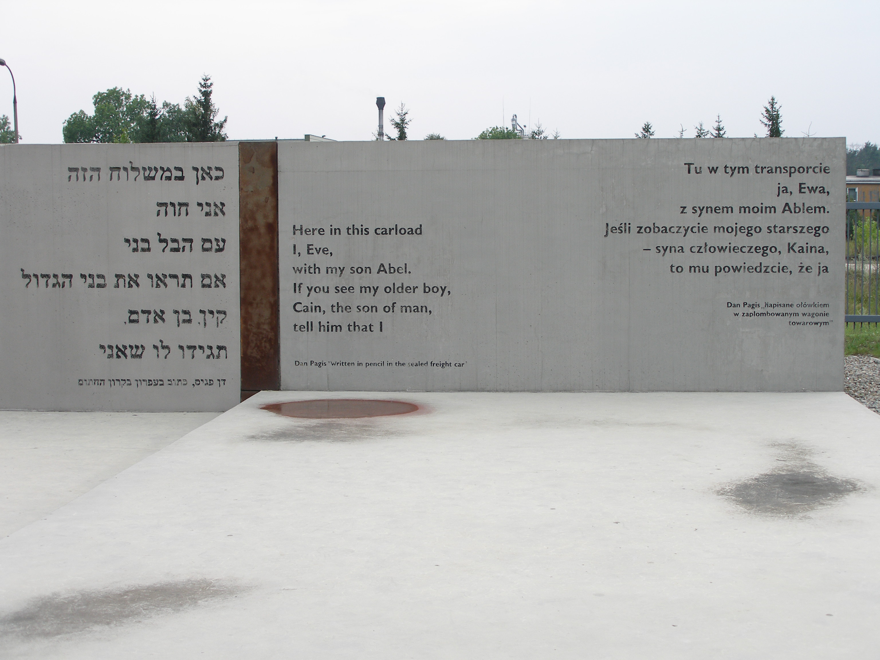 near entrance to former extermination camp Belzec